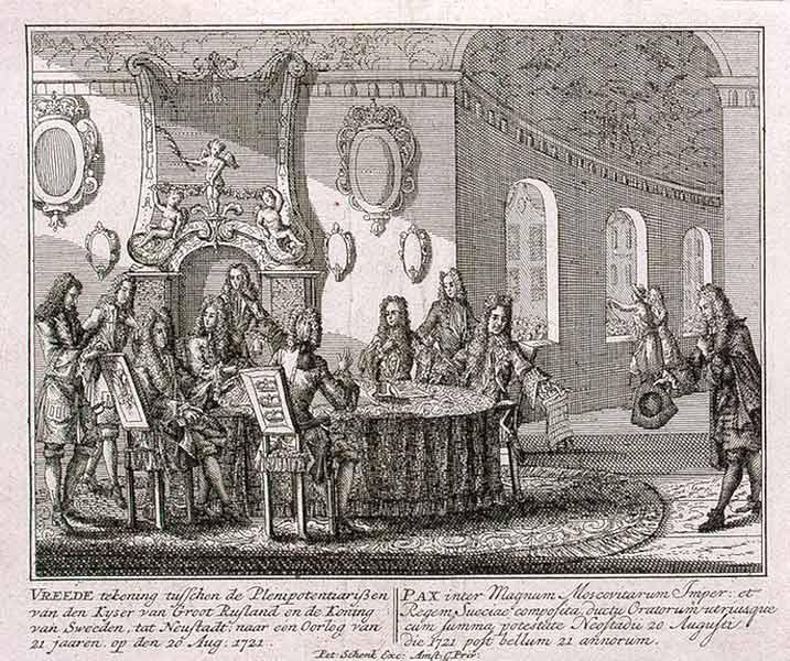 Treaty of Nystad, 20.08.1721